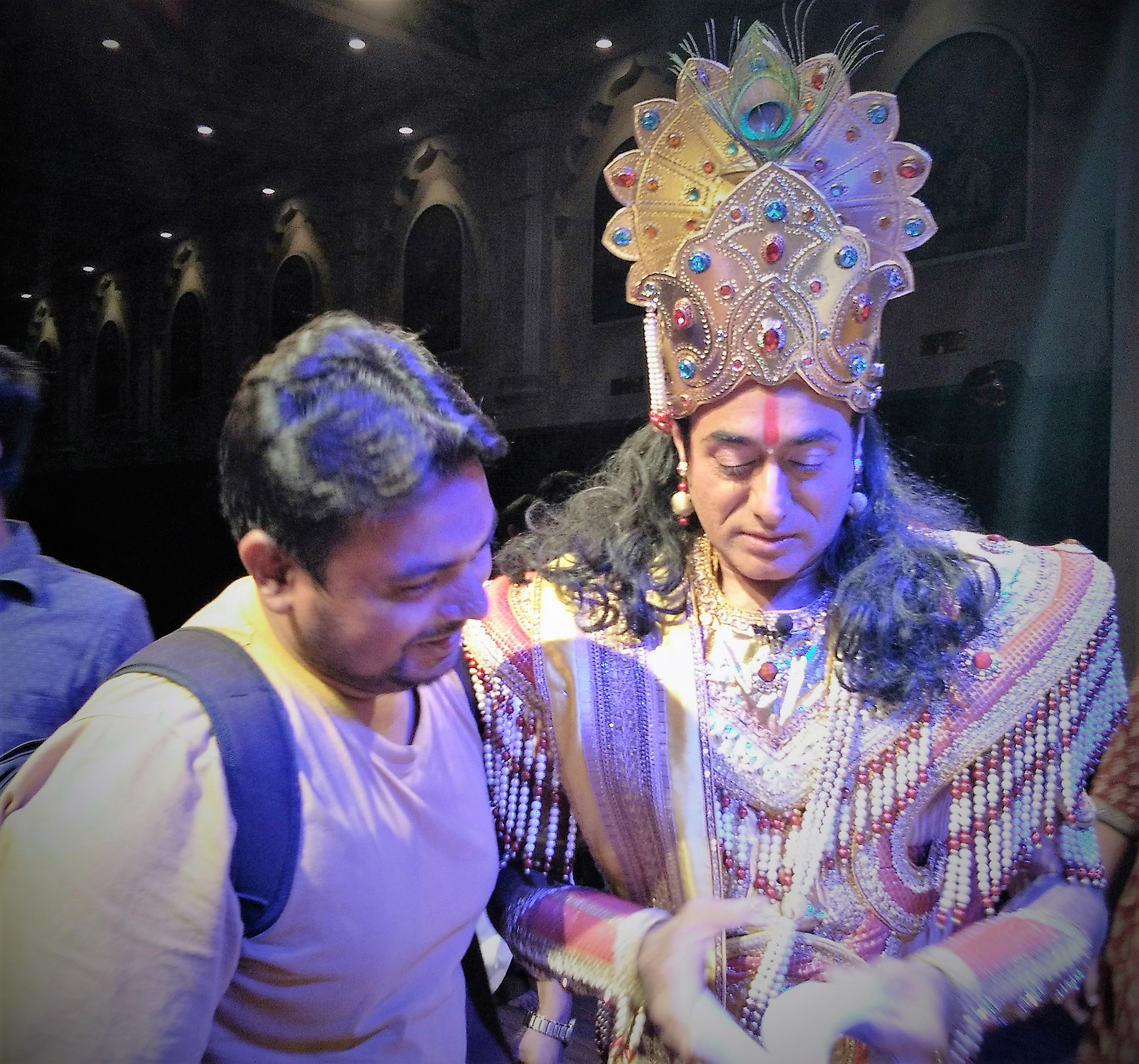 Nitish Bhardwaj in Kolkata during Atul Satya Koushik's play "Chakravyuh"